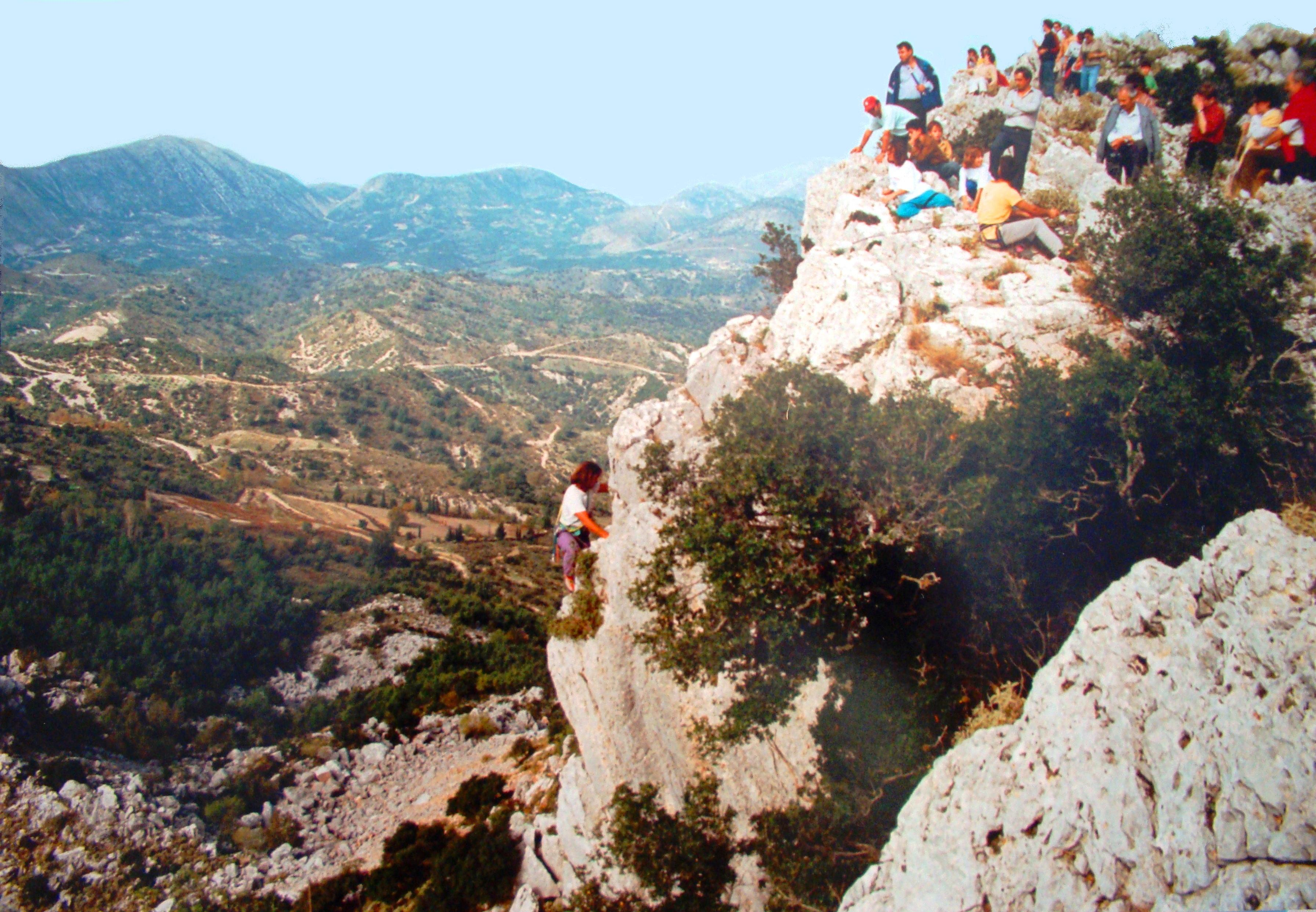 Category:Zalongo